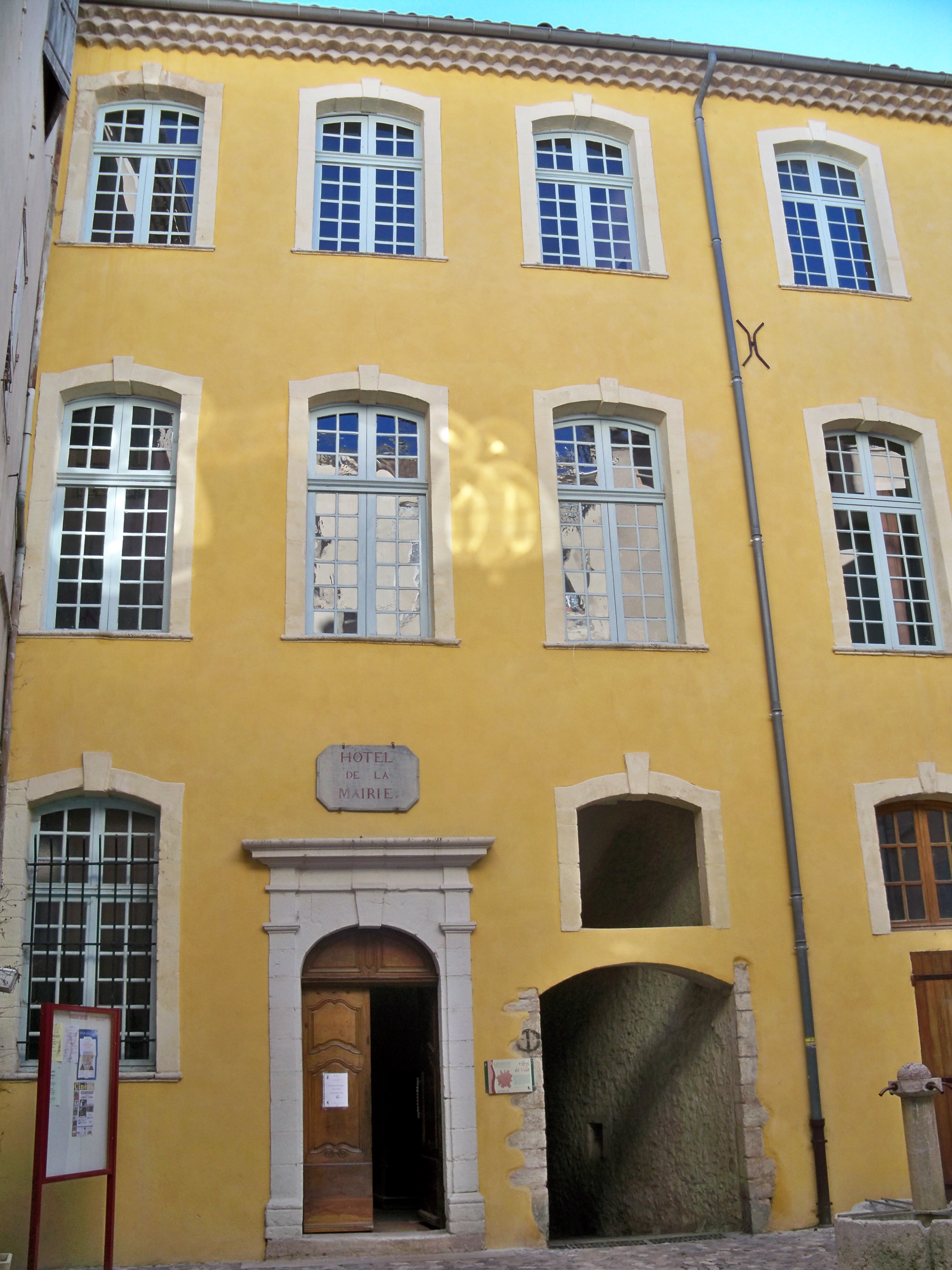 town hall of Riez (Alpes de Haute Provence, France)